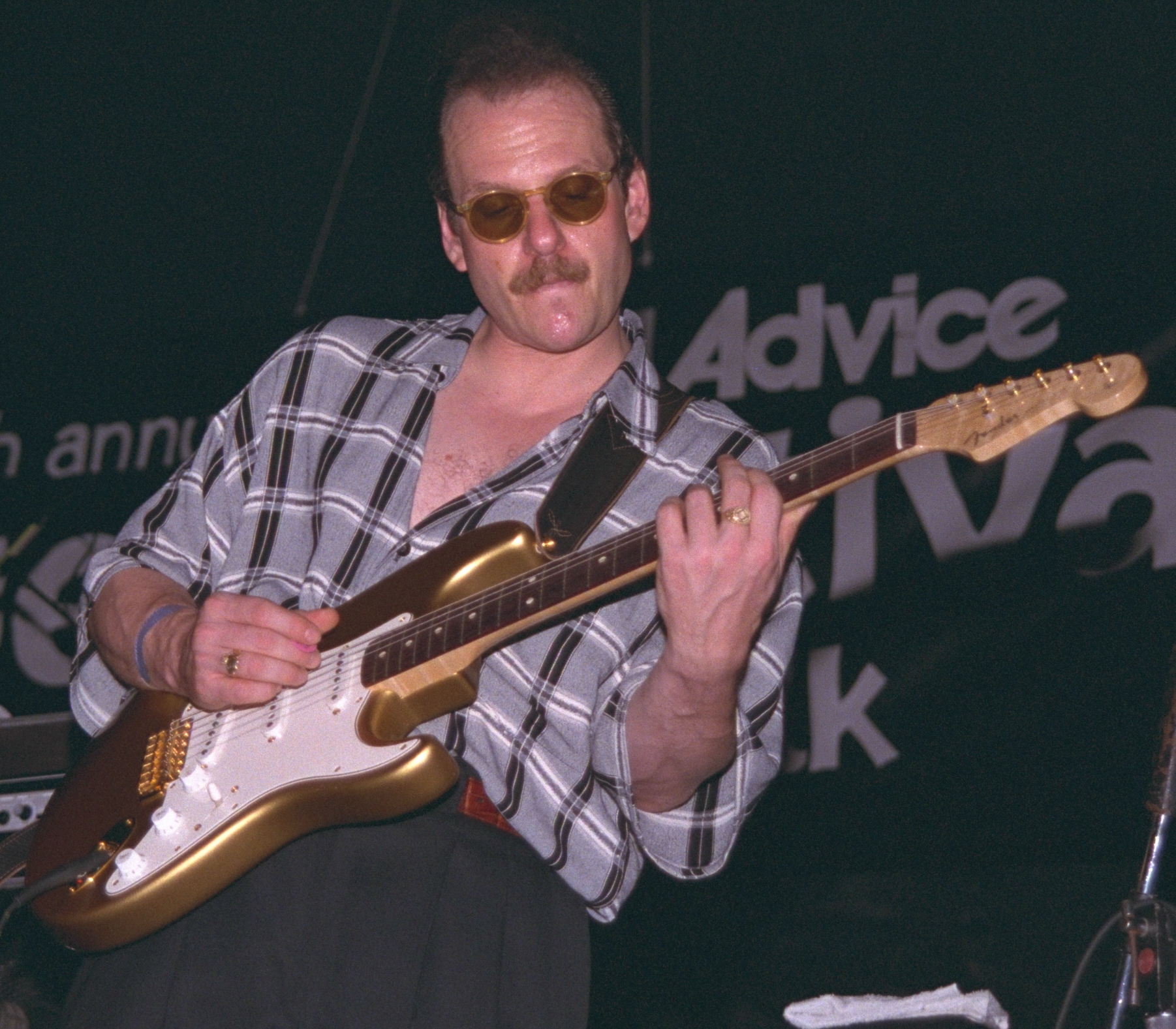 Ronnie Earl performing at the 1996 Riverwalk Blues Festival in Fort Lauderdale, FL.